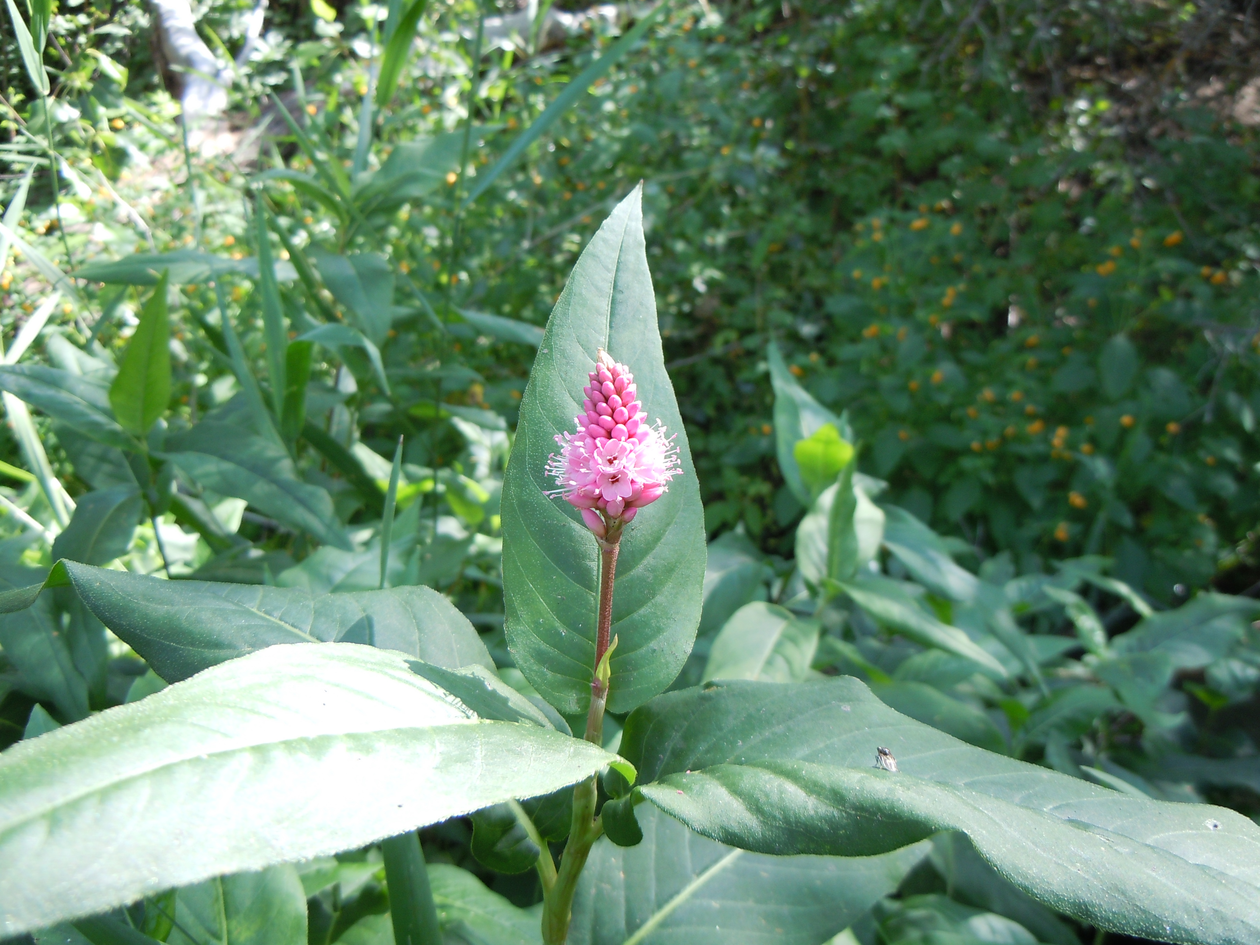 The spicate inflorescence is always terminal and often lateral (here just a terminal inflorescence branch is shown).